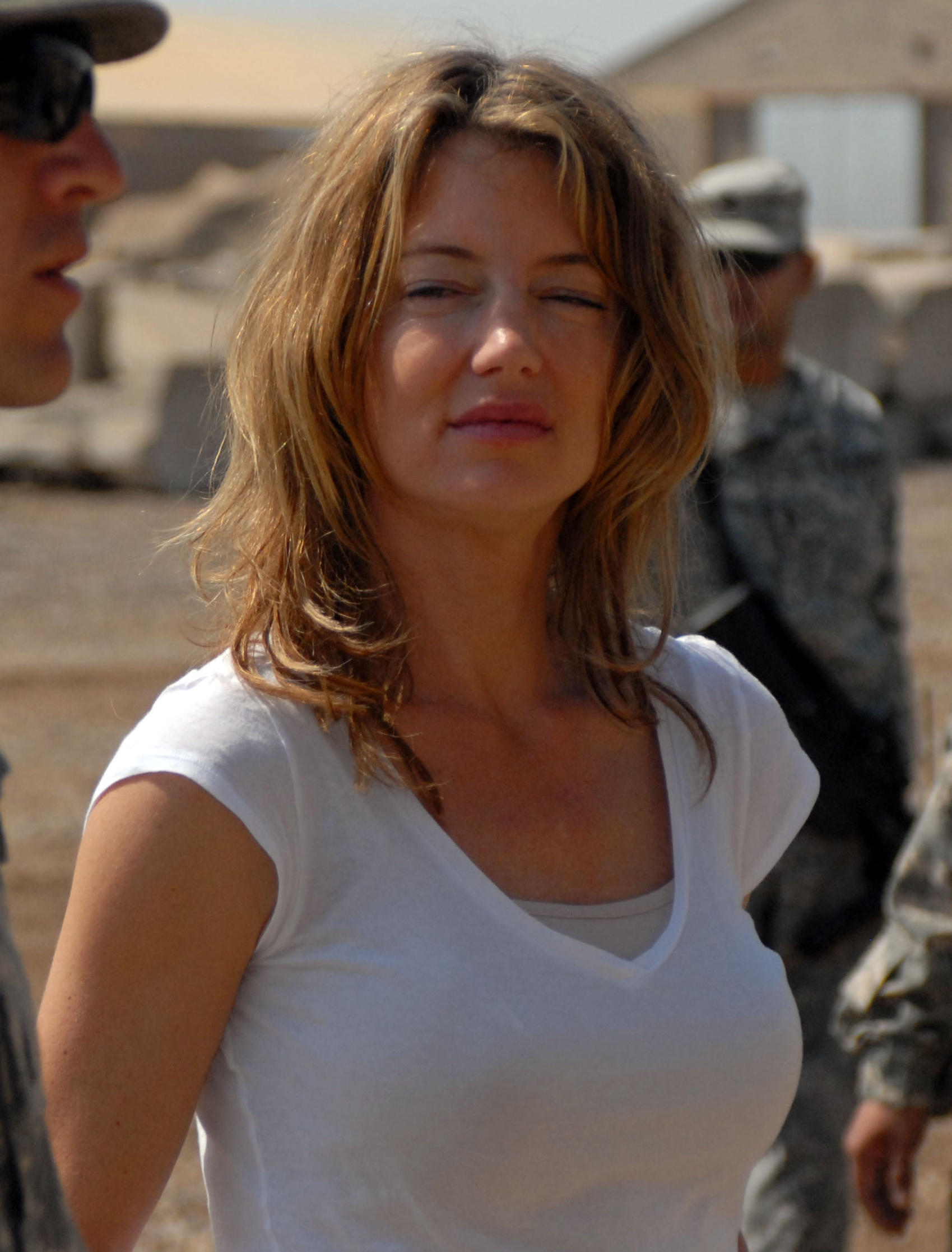 American actress Cynthia Watros, a member of the Ambassadors of Hollywood tour group, during a visit on March 14 to Camp Taji, Iraq.